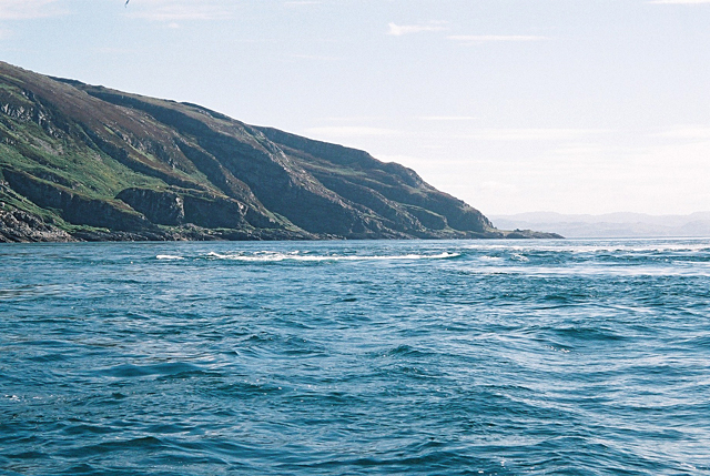 The Corryvreckan whirpool, between the islands of Jura and Scarba